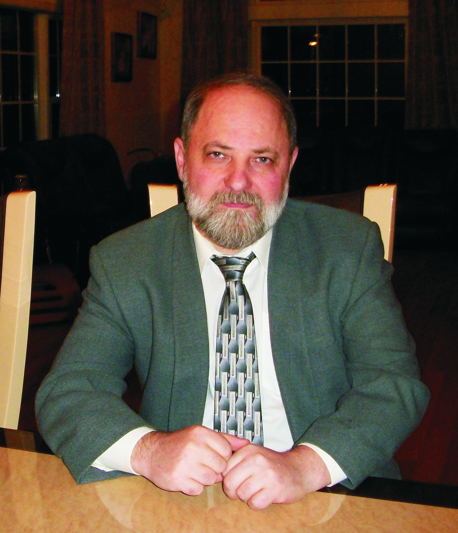 Paul Israel Pickman Photo